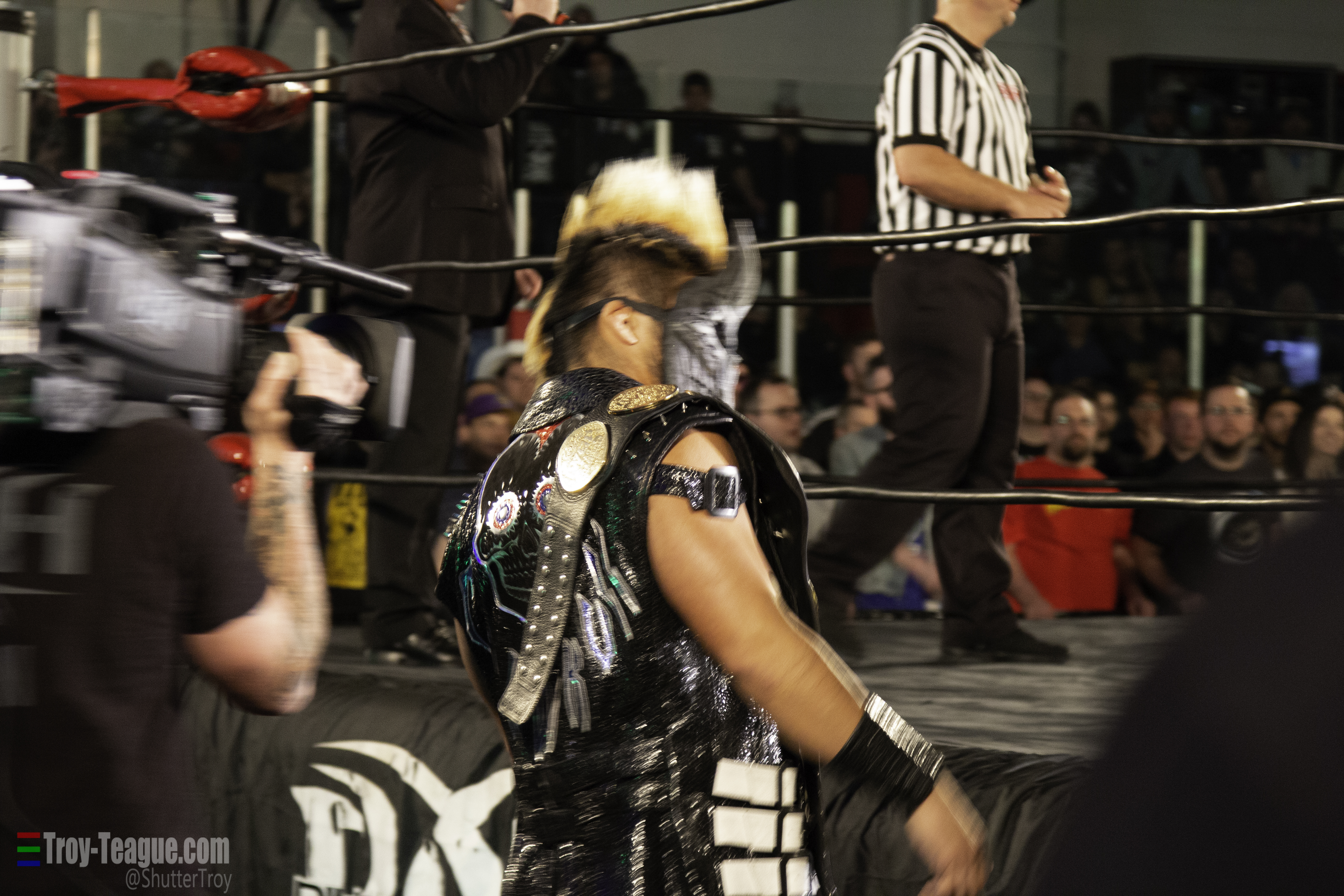 Pro wrestler Sanada as IWGP Tag Team Champion